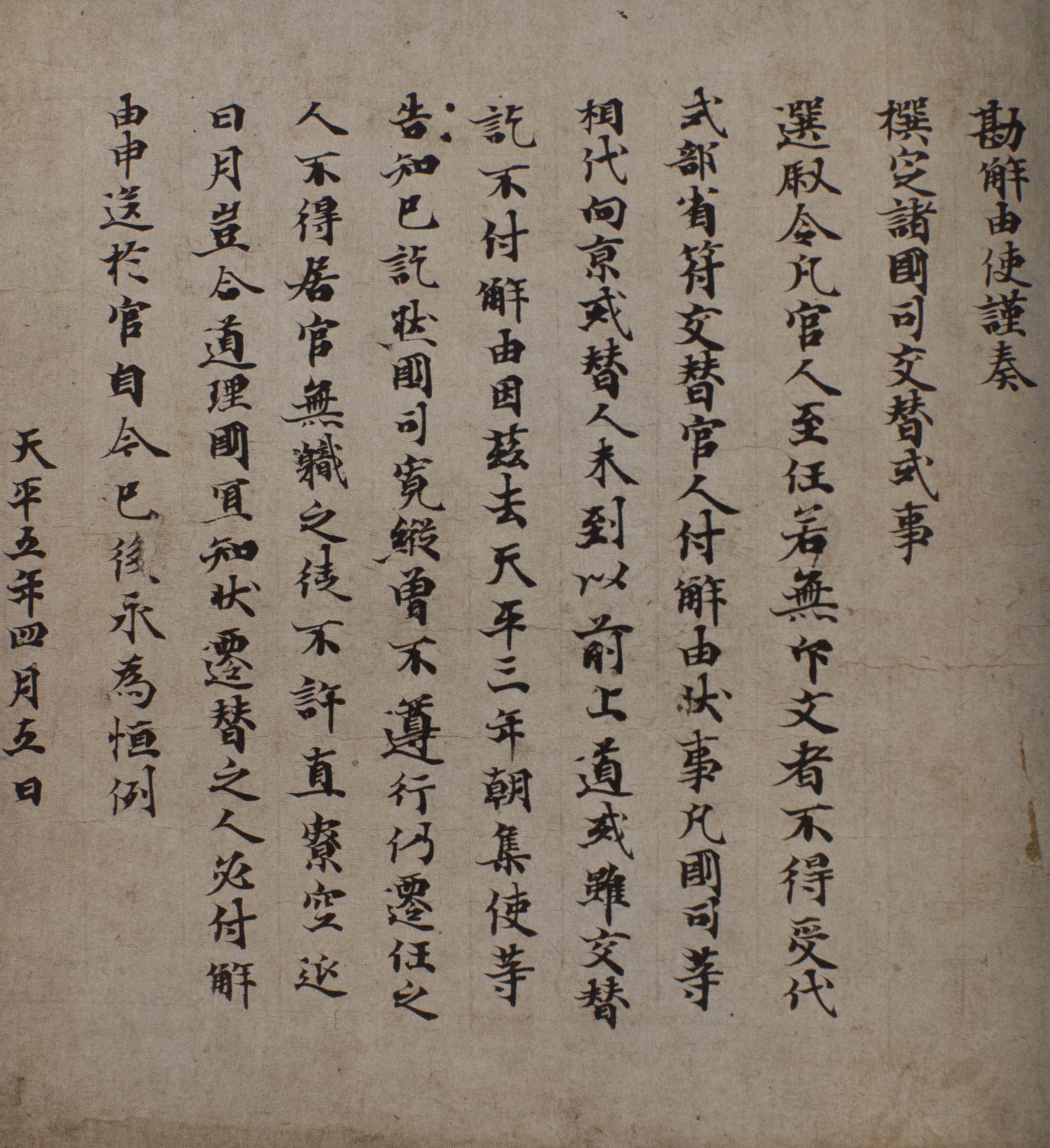 National Treasure of Japan